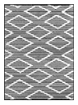 "Lozenge"-style watermark used on some intaglio-printed postage stamps. Created by author for illustrative purposes only.